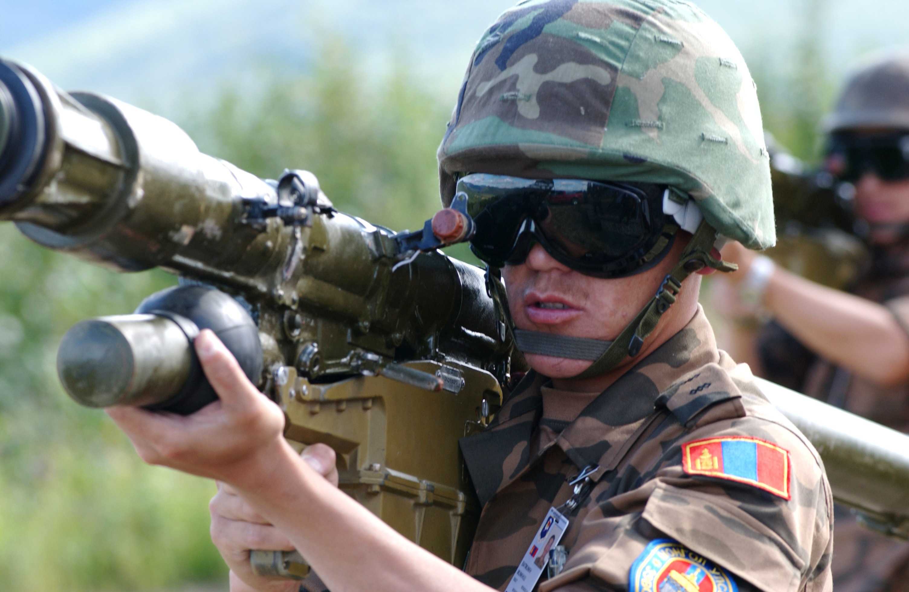 Mongolian soldier, with an SA-18 MANPADS at the Pacific Alaskan Range Complex on July 16th during Red Flag-Alaska 07-3.